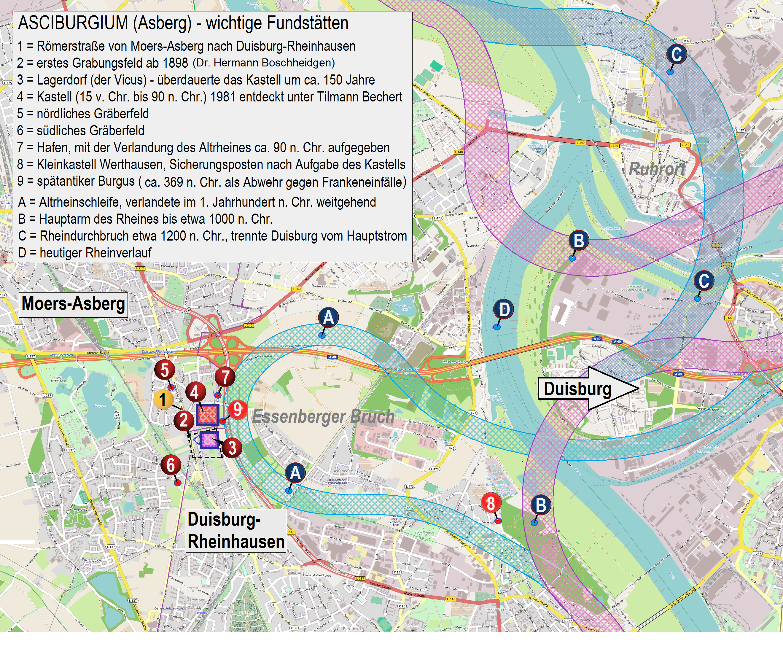 This map of Fundstellen und Einrichtungen in und bei Asciburgium was created from OpenStreetMap project data, collected by the community. This map may be incomplete, and may contain errors. Don't rely solely on it for navigation.